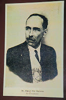 Miguel Paz Barahona (1863-1937), president of Honduras in 1925-29.